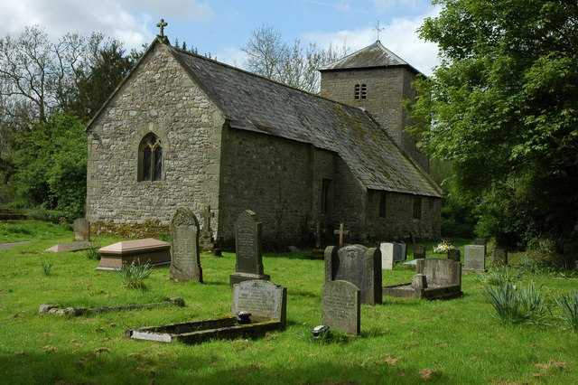 Llanvihangel Gobion Church Llanvihangel Gobion Church is dedicated to St Michael, here it is viewed from the north-east.